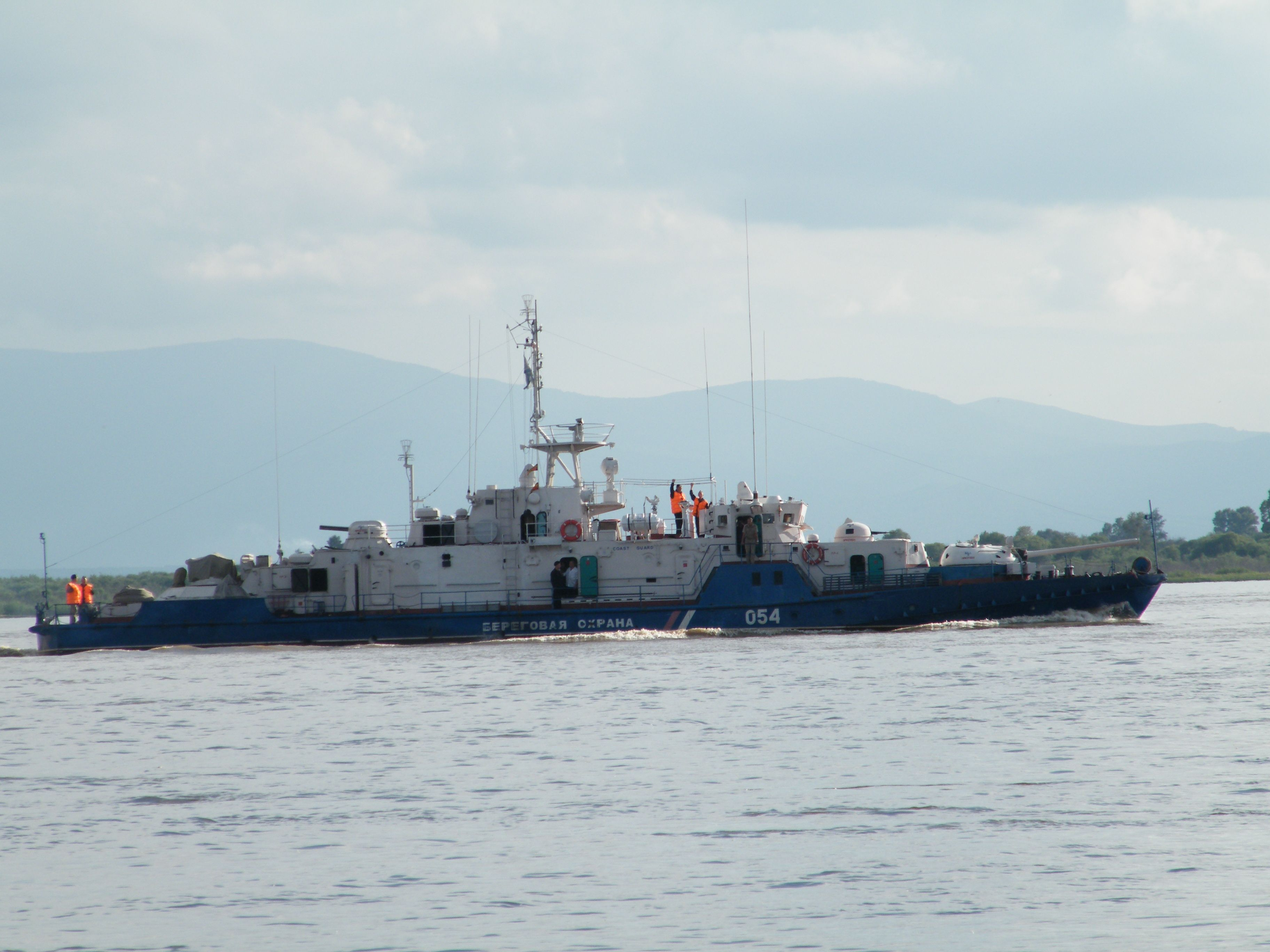 Amur Military Flotilla